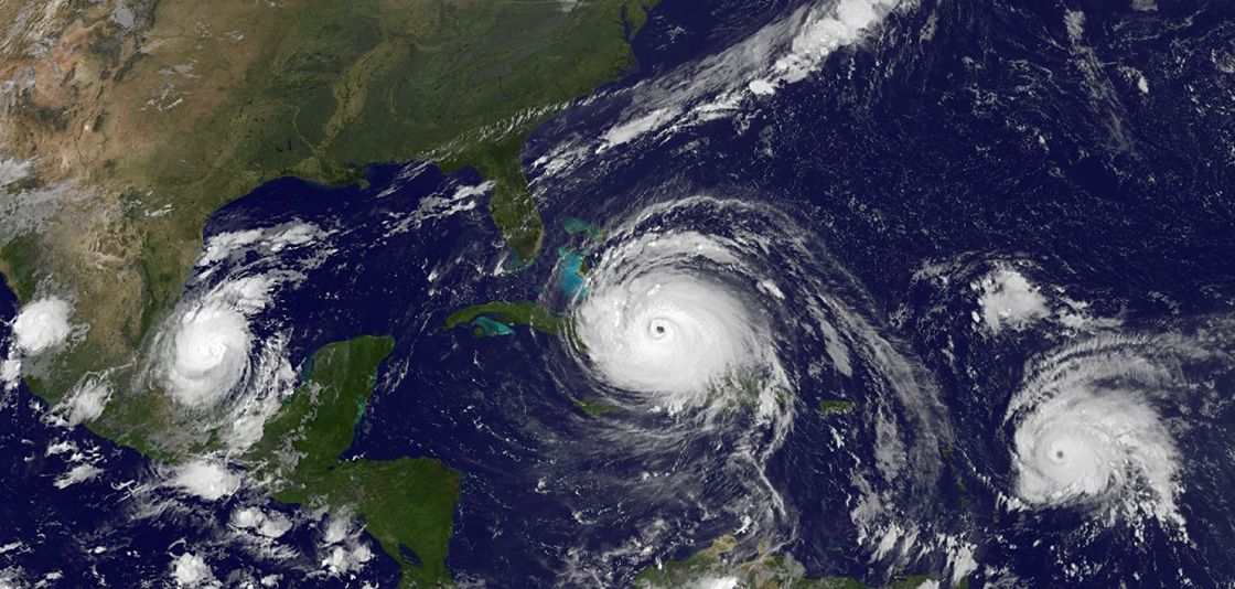 From left to right: GOES-16 image of Hurricane Katia, Irma and Jose on September 8, 2017